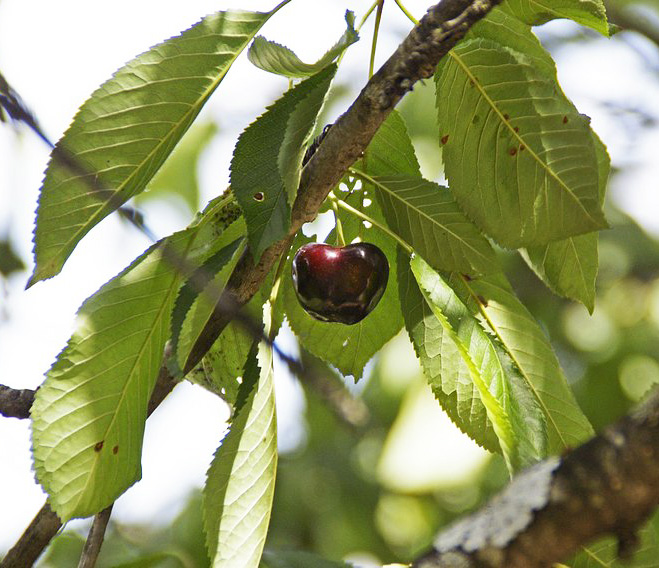 Cereza en Cambroncino. Comarca de las Hurdes. Cáceres. Extremadura. España